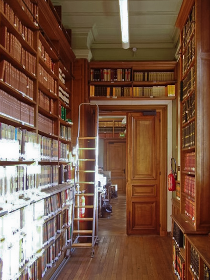 Paris (Île-de-France, France) : Lobby of École des Chartes' library.